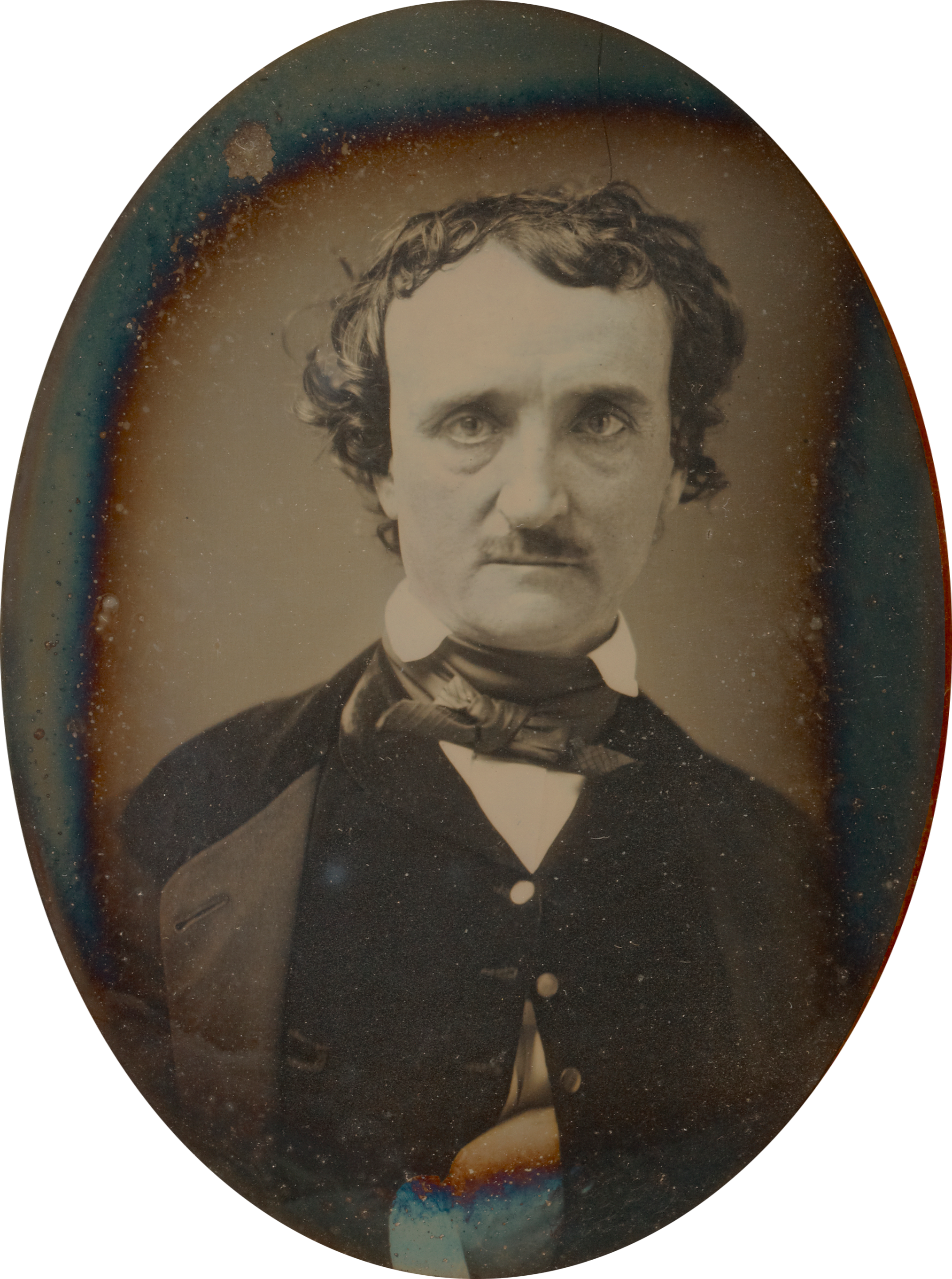 Daguerreotype of Edgar Allan Poe, known as the "Annie" Daguerreotype.